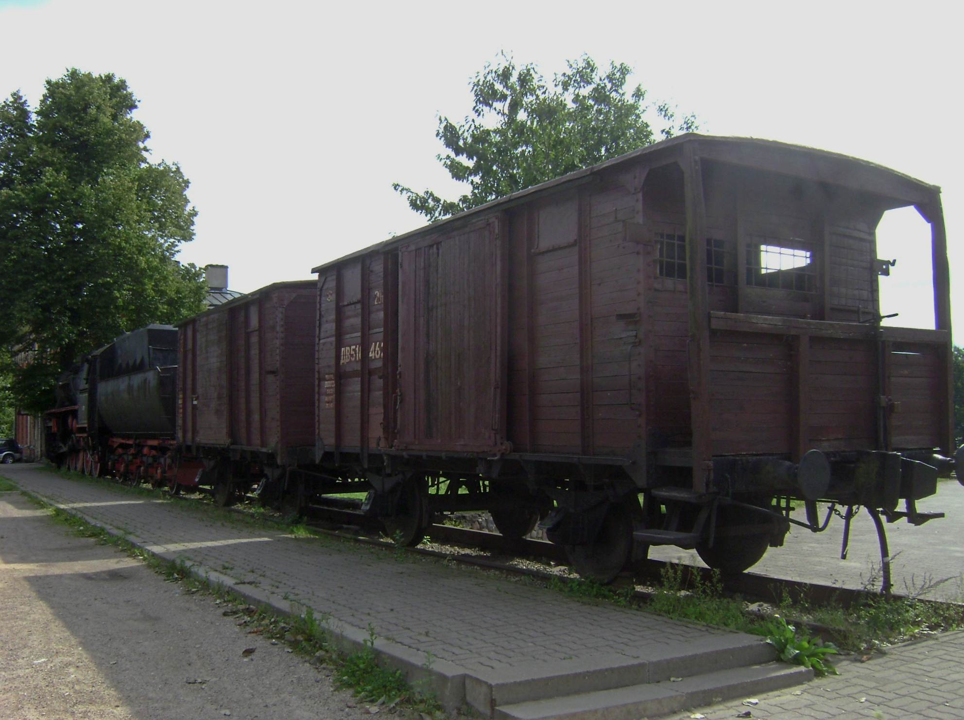 Lithuania. Vilnius. Naujoji Vilnia